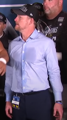 In 2019